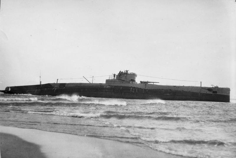 This might be S-19, but its stranded in 1925 off Massachusetts, not in 1932 off Florida